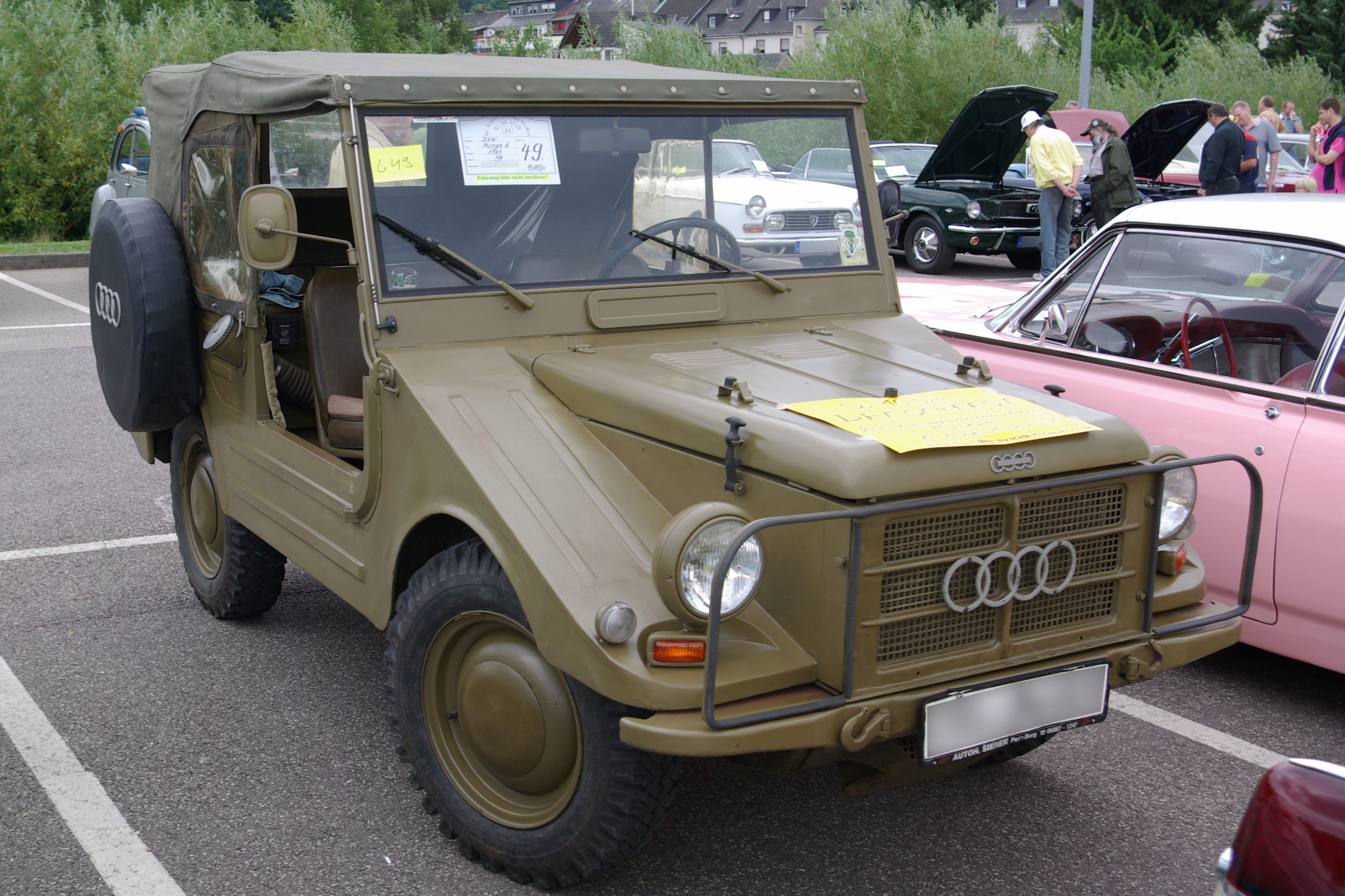 A DKW Munga car, built in 1961. Power: 54 hp.